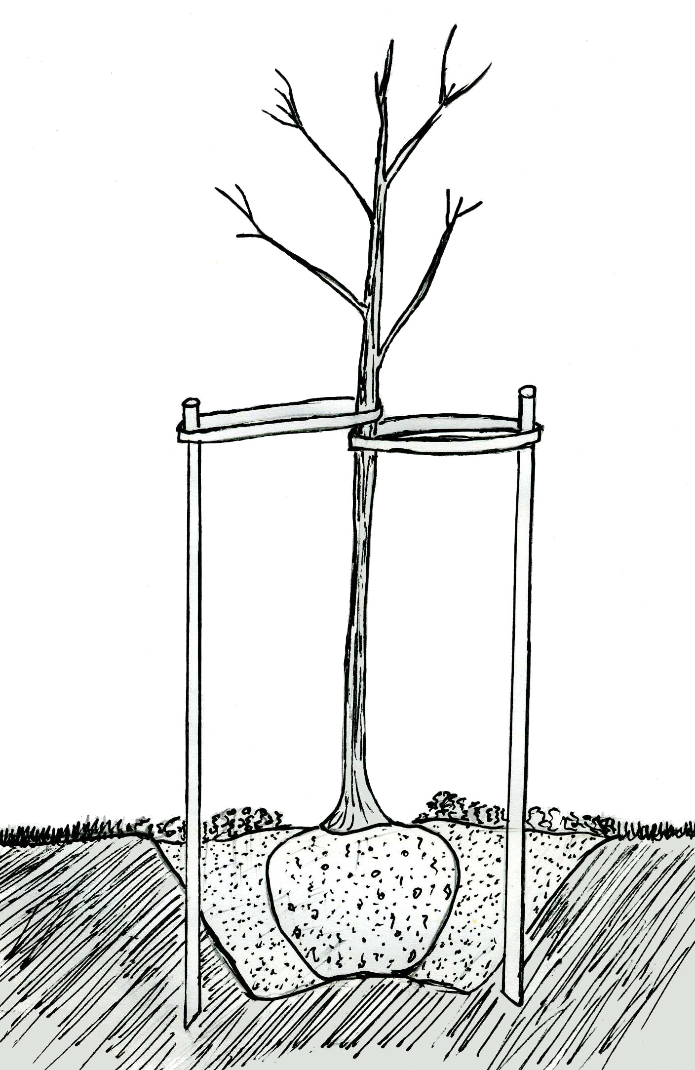 Diagram of hole and staking arrangement for planting a potted tree in the ground. Also shows "pedestal" hole shape and fill soil. Hand drawing by Dvortygirl.